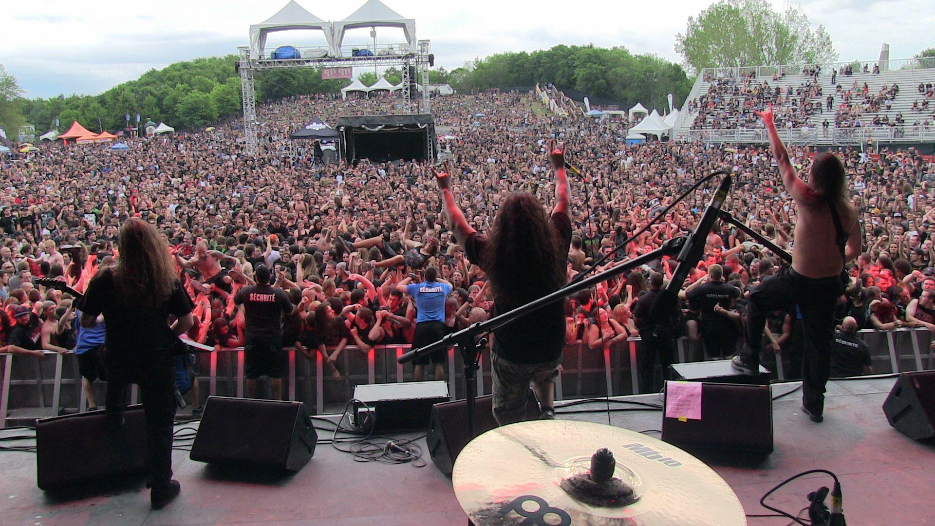 Kataklysm live at Heavy MTL festival 2012